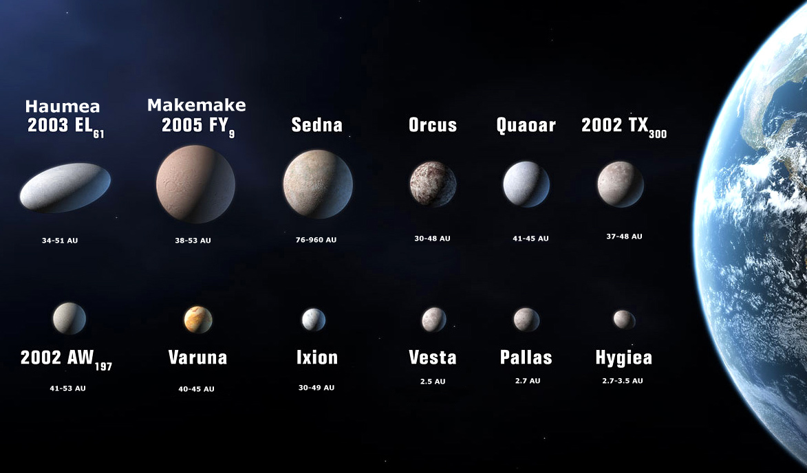 Twelve minor planets, which were already in 2006 considered to join the list of dwarf planets.